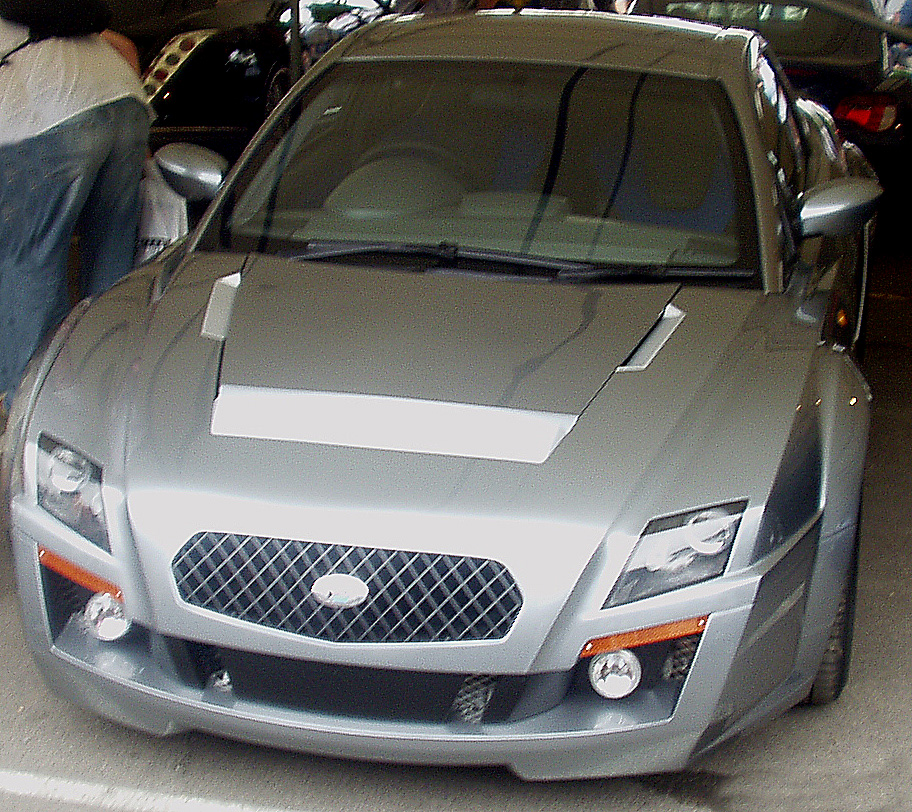 Prodrive P2 Concept Car, at the Goodwood Festival of Speed 2006